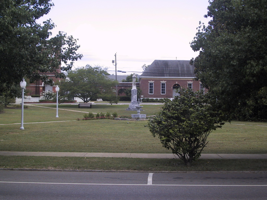 Personal photo made by Slipdigit